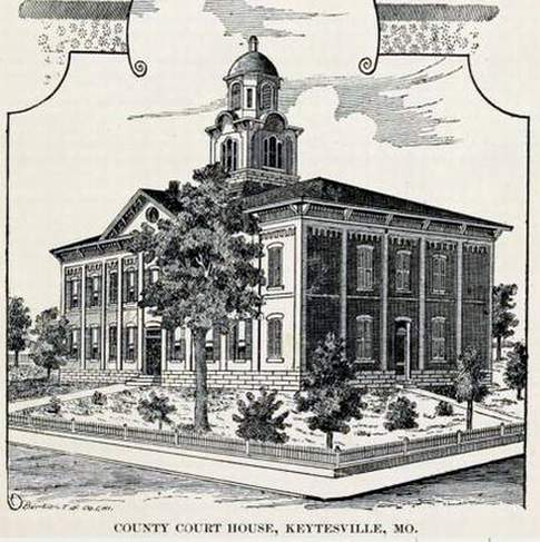 Illustration of the second Chariton County Courthouse, Keytesville, Missouri. The courthouse served the county from the late 1860s until destroyed by fire in 1973. Illustration first published in 1896.